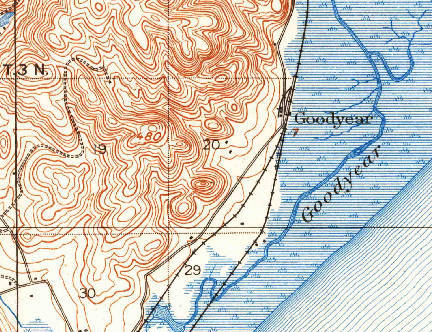 Earlier map of Bahai